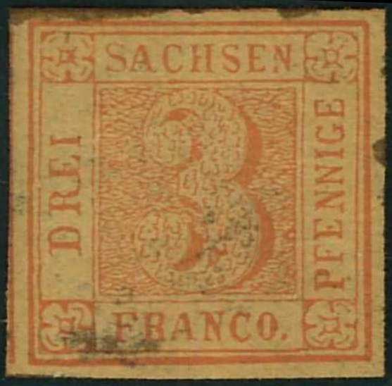 Germany, Sachsen 1850 forgery